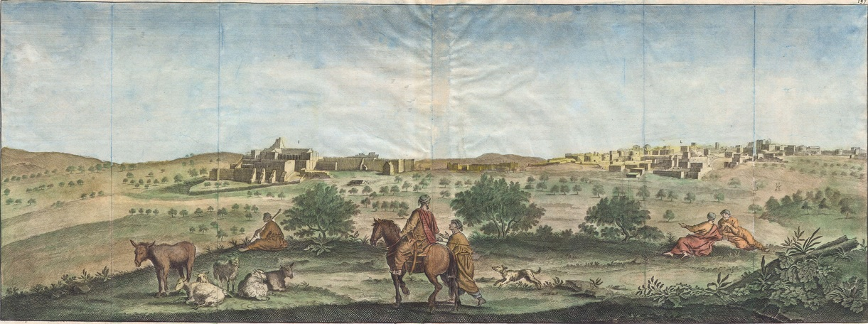 A rare 1698 view of Bethlehem by Dutch artist Cornelius de Bruijin. Depicts the city as well as the nearby herding grounds. Arab horsemen, loungers, and a hunting dog roam in the foreground. This view was most likely rendered in secret during de Bruijin’s second world tour. The Holy Land was then under the control of the Ottoman Empire who imposed strict limitations on pilgrims and tourist from Europe. It is highly unlikely that de Bruijin would have been allowed to make sketches of the region openly.